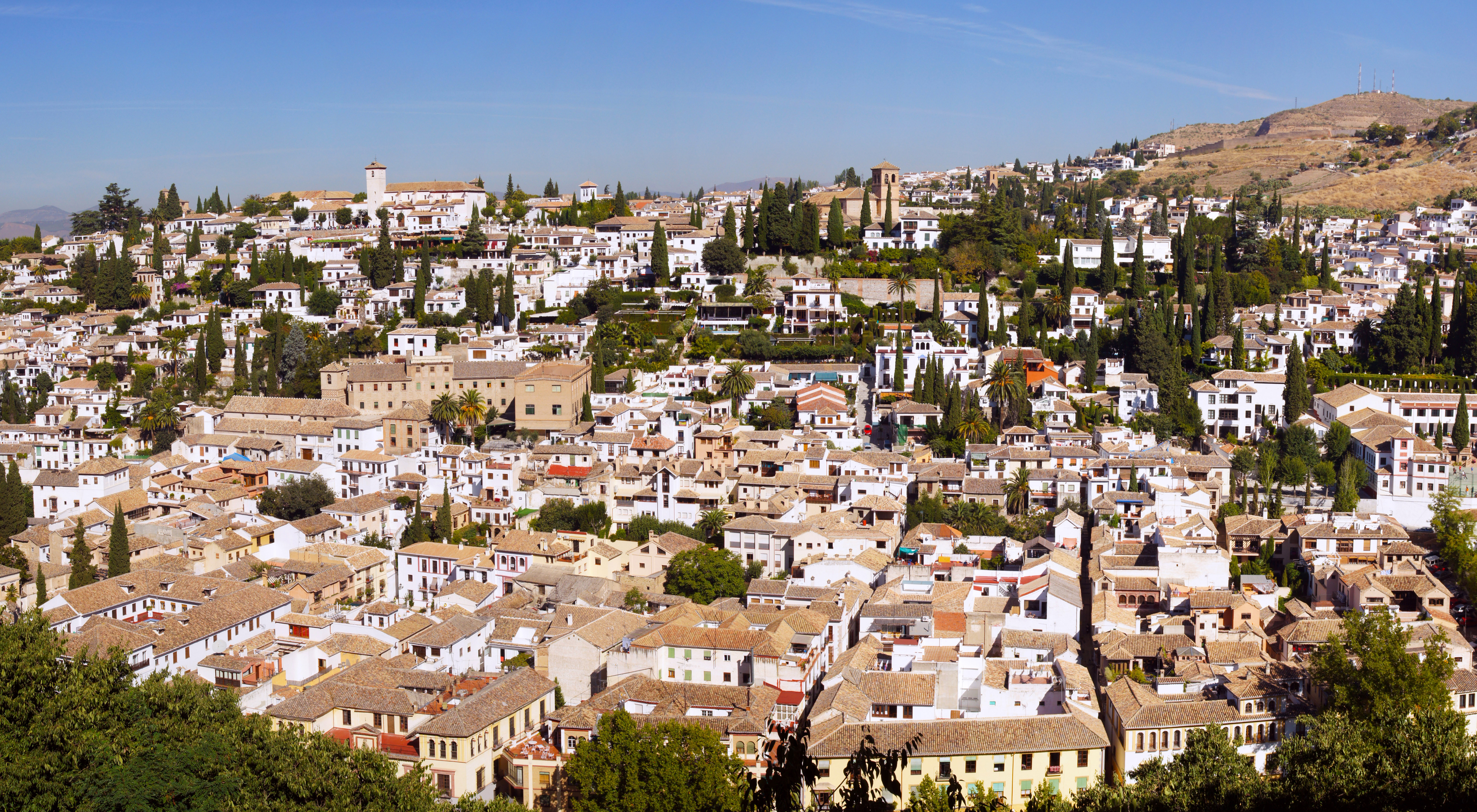 El Albayzín is a district of Granada, in the autonomous community of Andalusia, Spain.